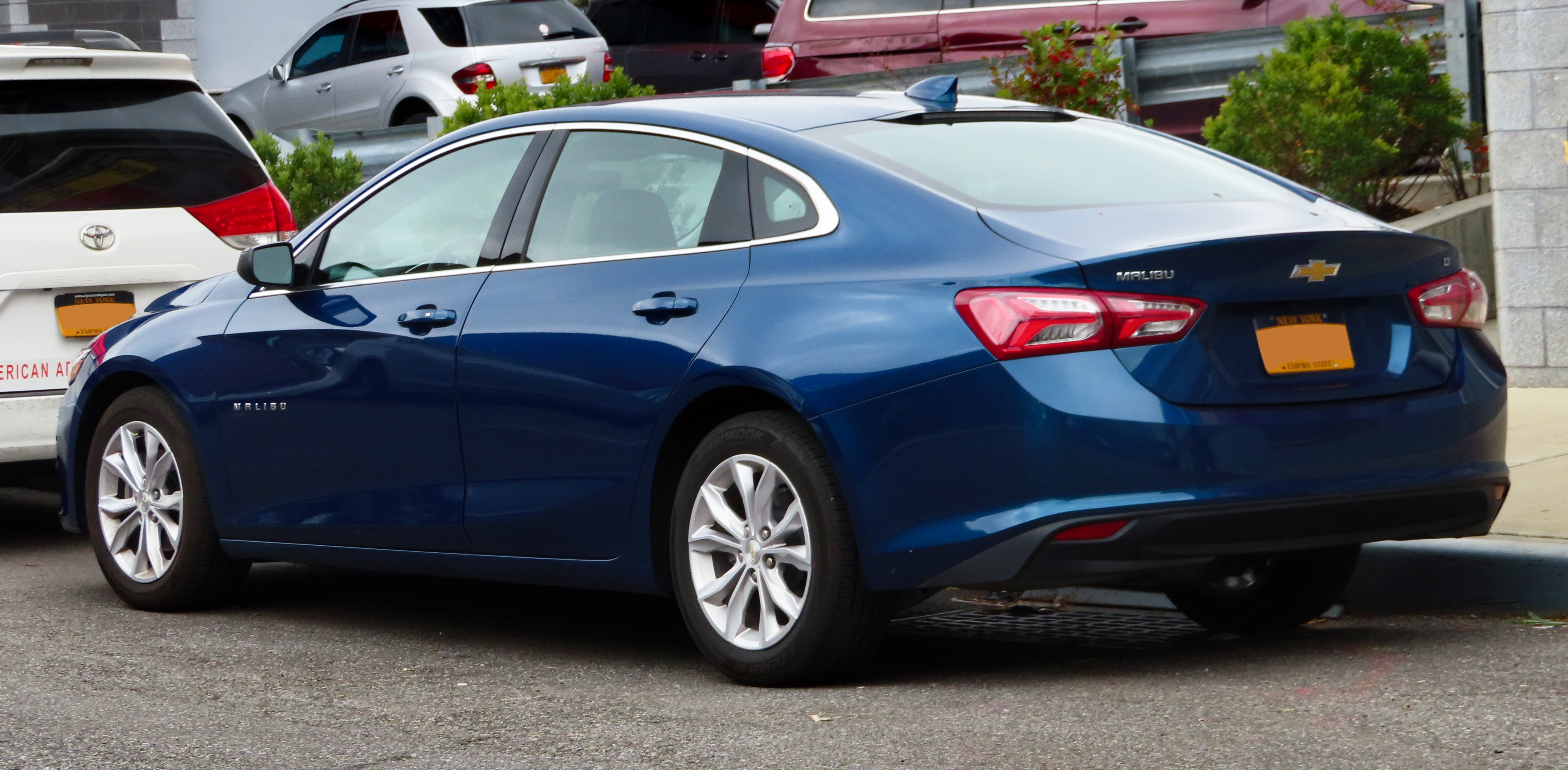 A 2019 Chevrolet Malibu facelift photographed in Flushing, Queens, New York, USA